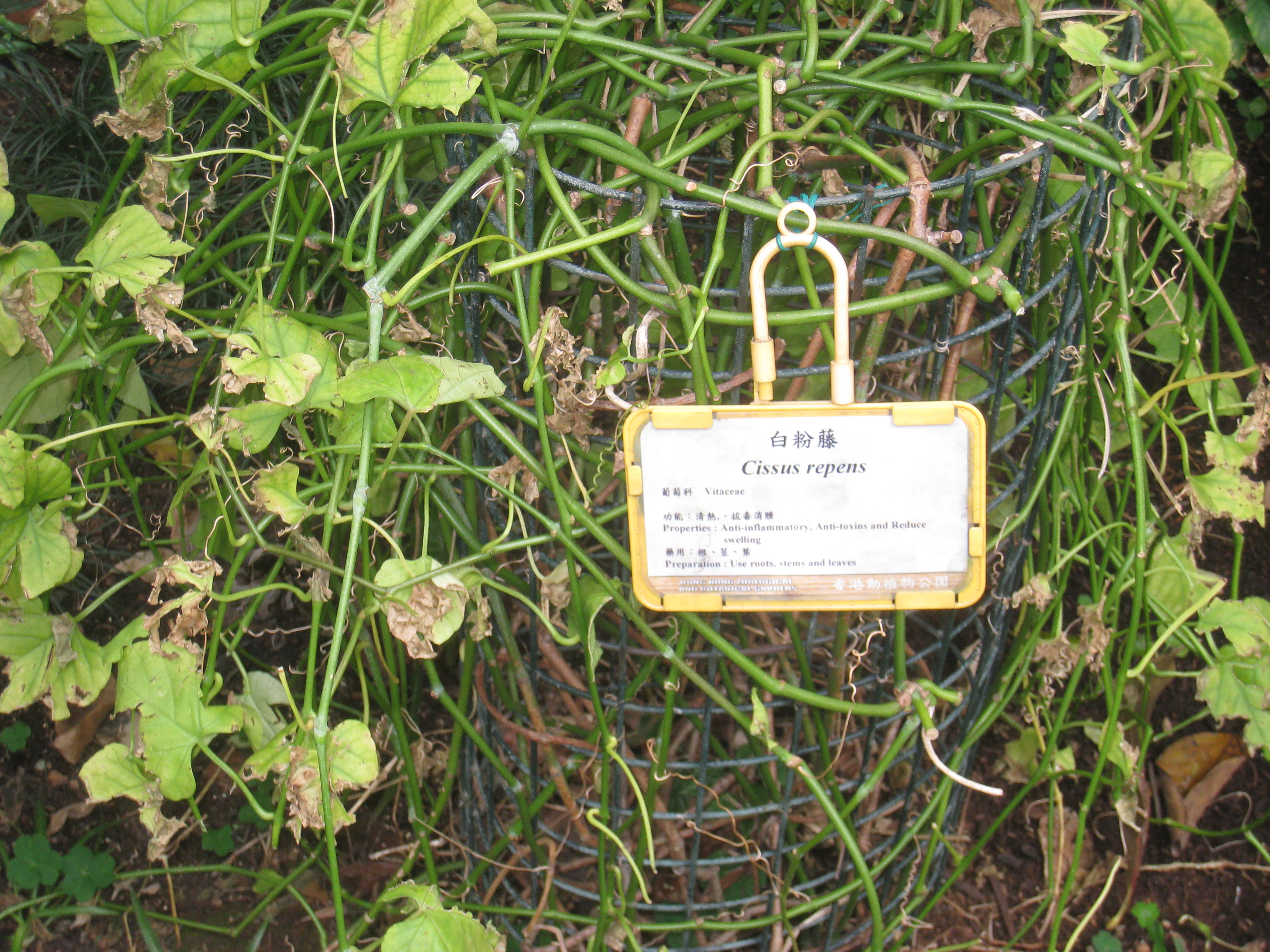 Cissus repens. Plant specimen in the Hong Kong Zoological and Botanical Gardens, Hong Kong.